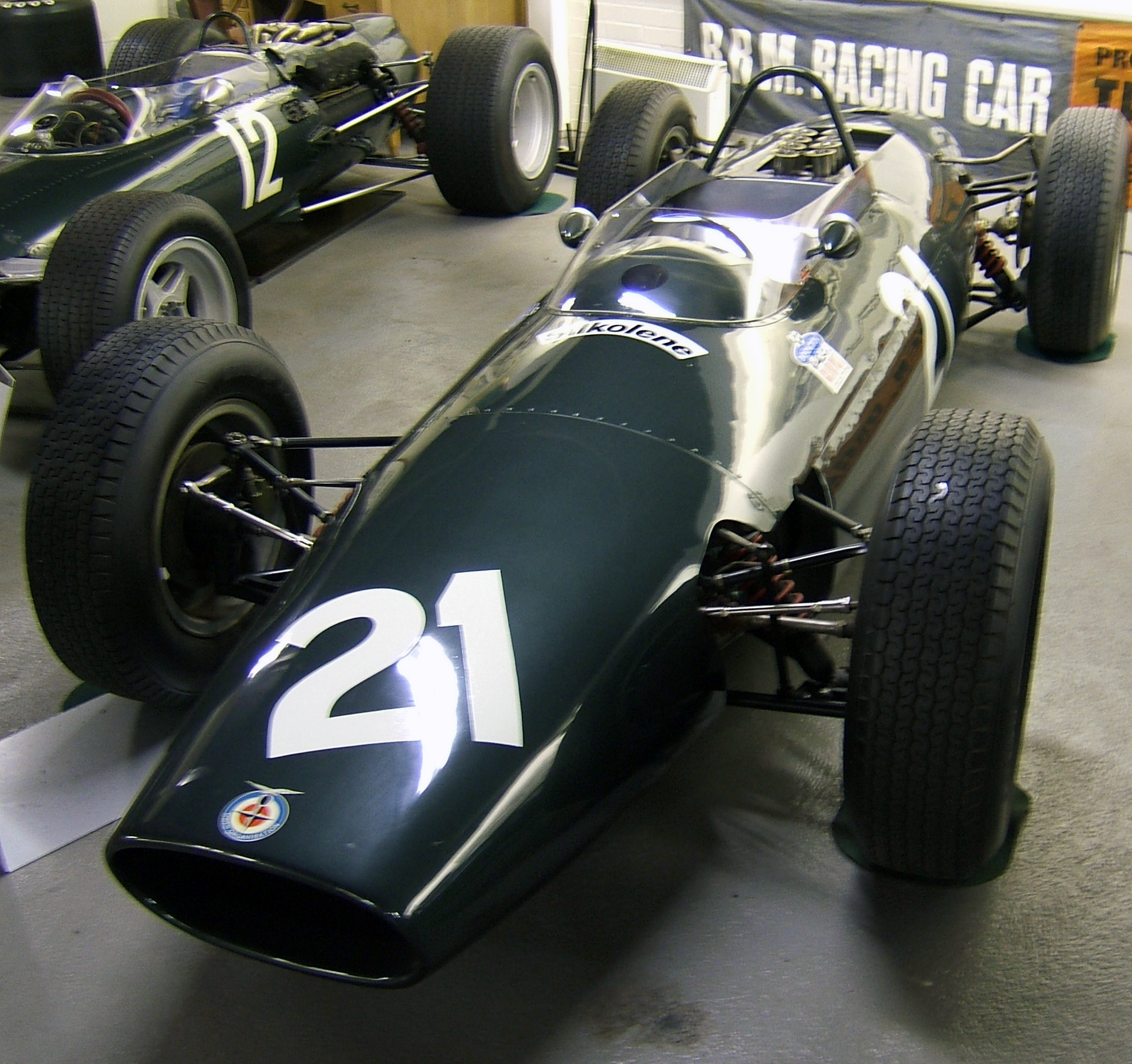 A four-wheel drive BRM P67 Formula One car of 1964. In the Donington Grand Prix Collection museum, Leics., UK.